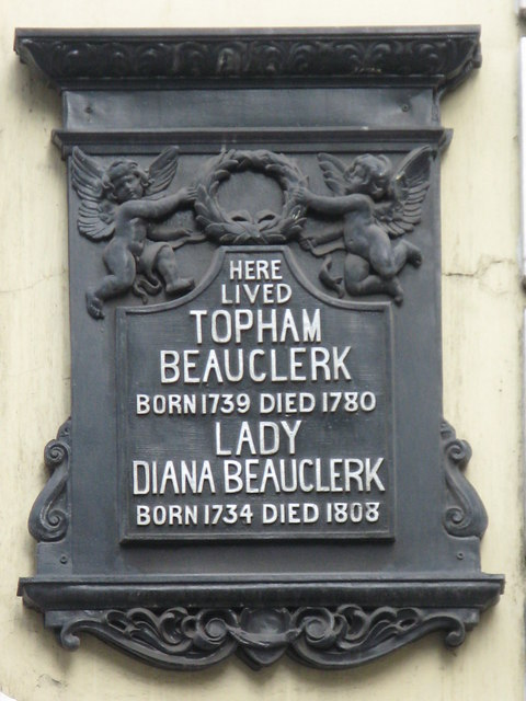 Plaque re Topham and Lady Diana Beauclerk on 100 & 101 Great Russell Street, WC1 See 1289842.